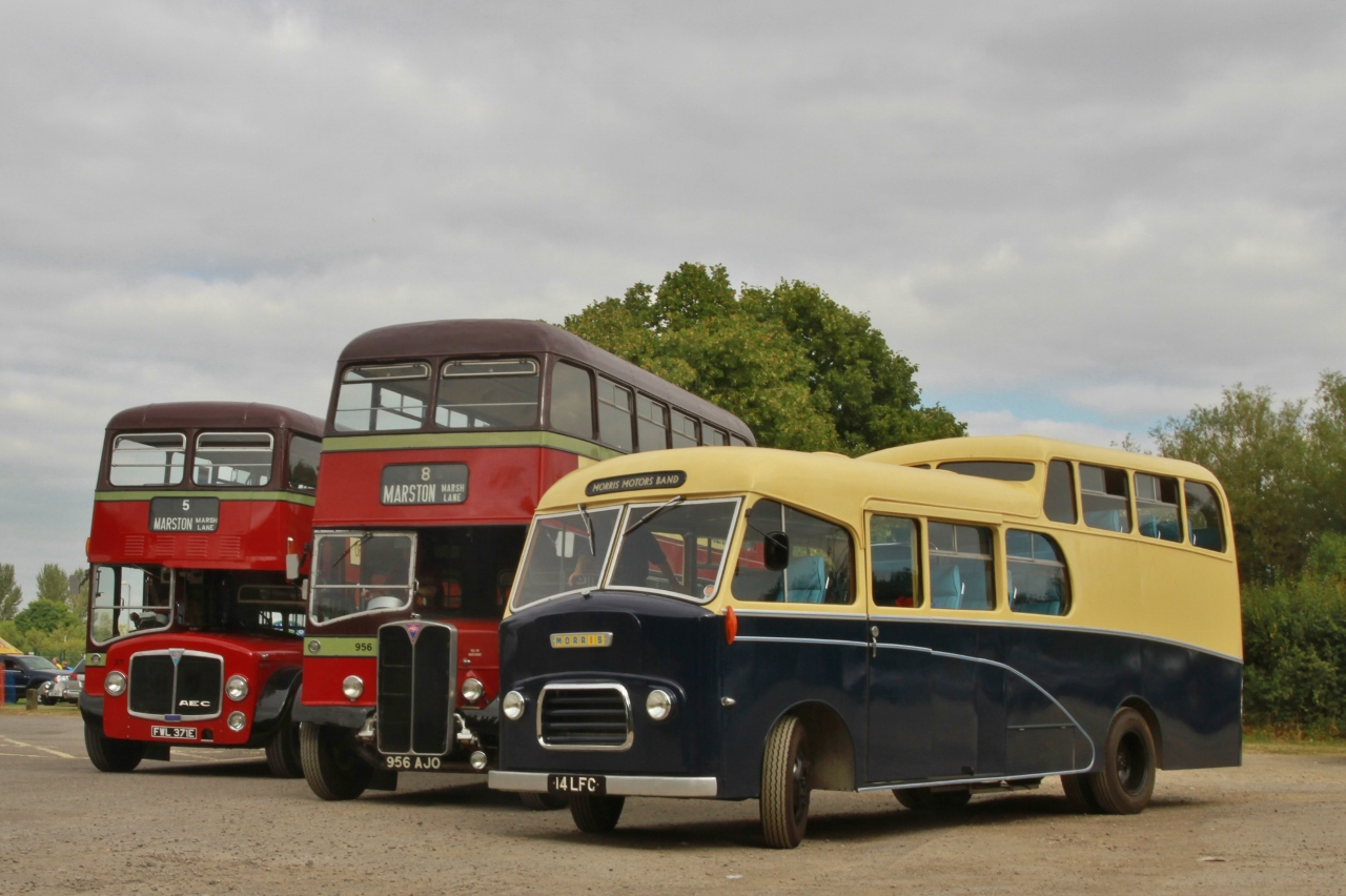 Buses and coach from Oxford Bus Museum at the Cowley Classic Car Show, Marsh Lane, Marston, Oxford, in August 2016.Centre right is a 1961 Morris FF coach with Wadham Stringer body that was built for the Morris Motors works band.Centre is a 1957 AEC Regent V of City of Oxford Motor ServicesLeft is a 1967 AEC Renown, also of City of Oxford Motor Services.